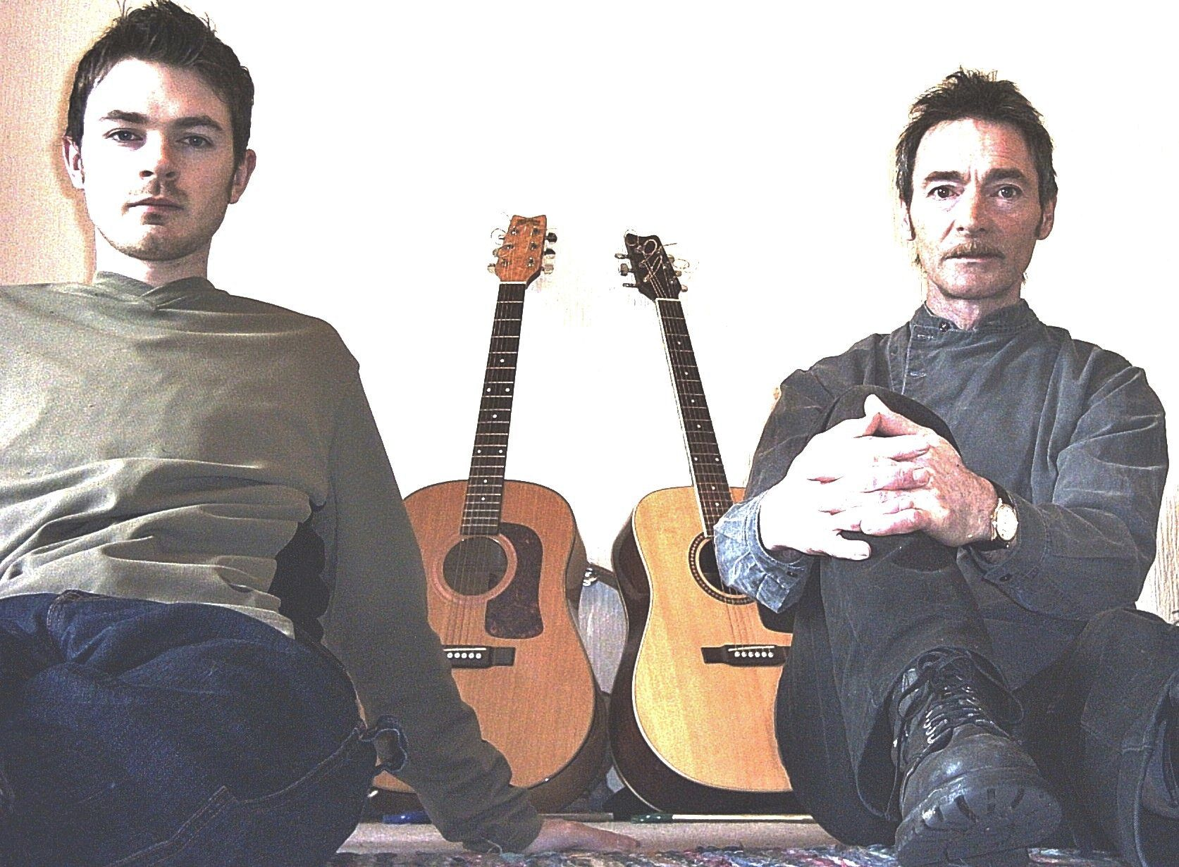 Photo of the UK band The Story from 2004 taken at their Church View studio, Somerset, England